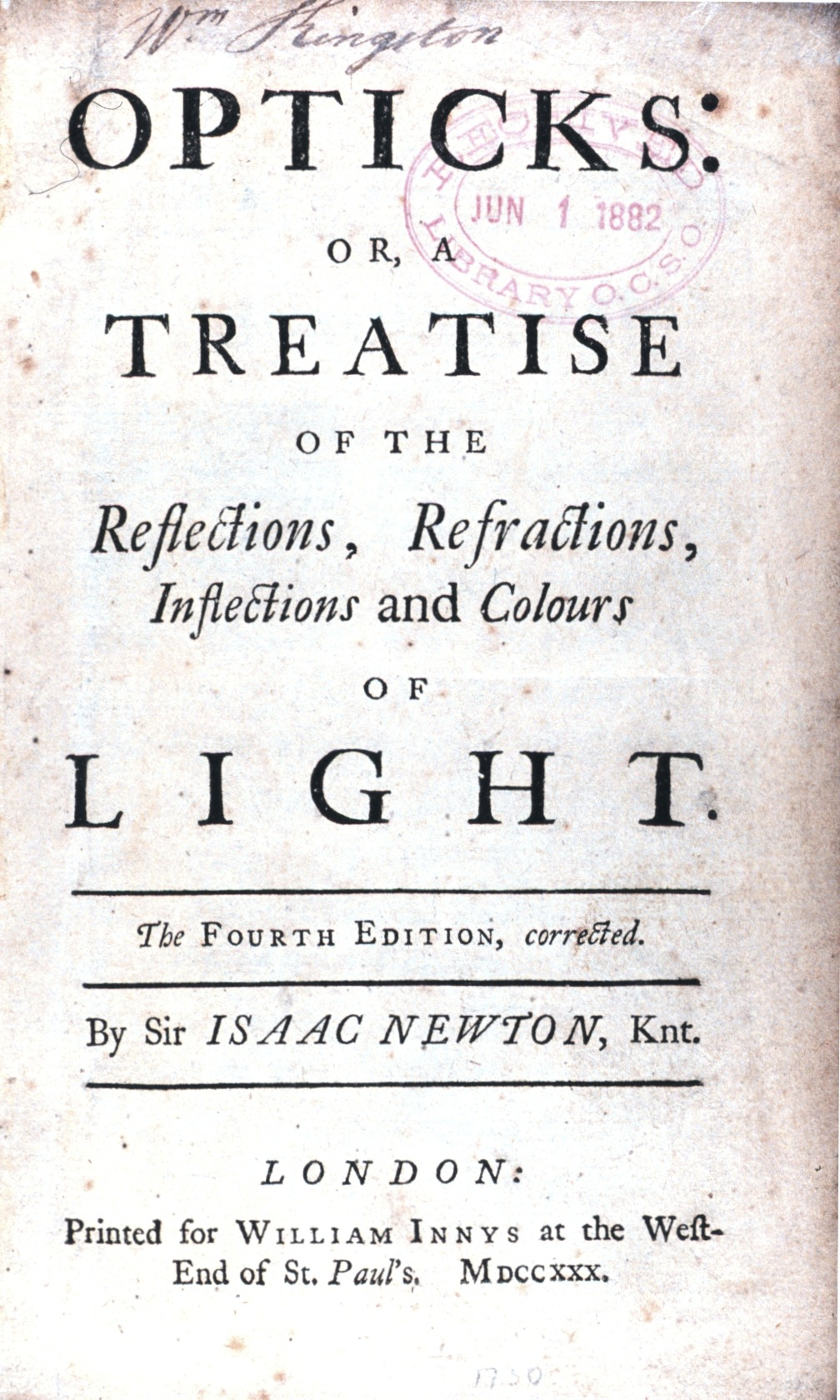 „Opticks or a treatise of the reflections, refractions, inflections and colours of light“